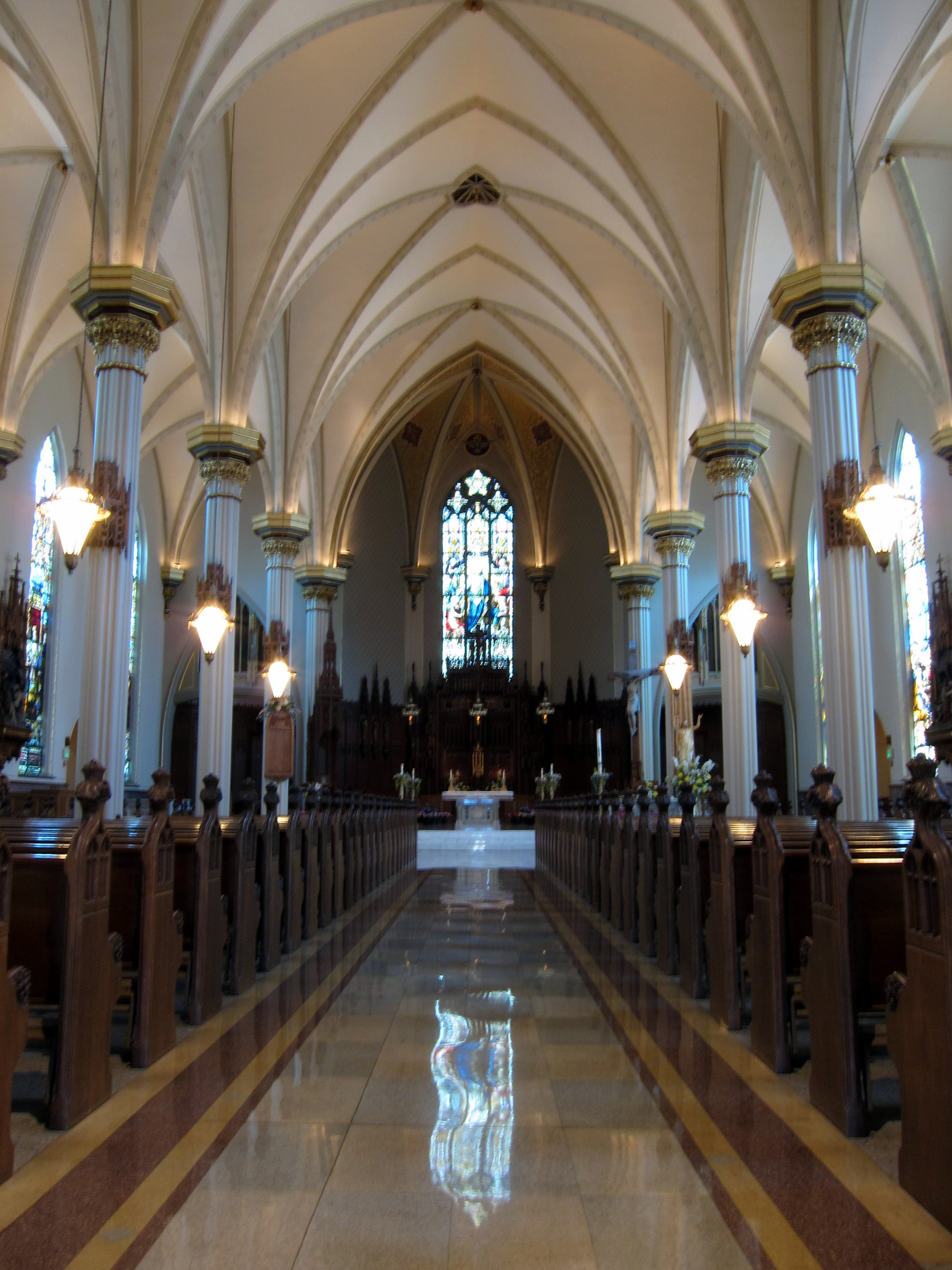 Cathedral of the Immaculate Conception (Fort Wayne, Indiana) - interior, nave